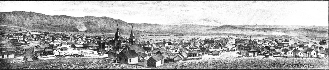 Origin:From the August, 1885 edition of West Shore (pdf page 26)